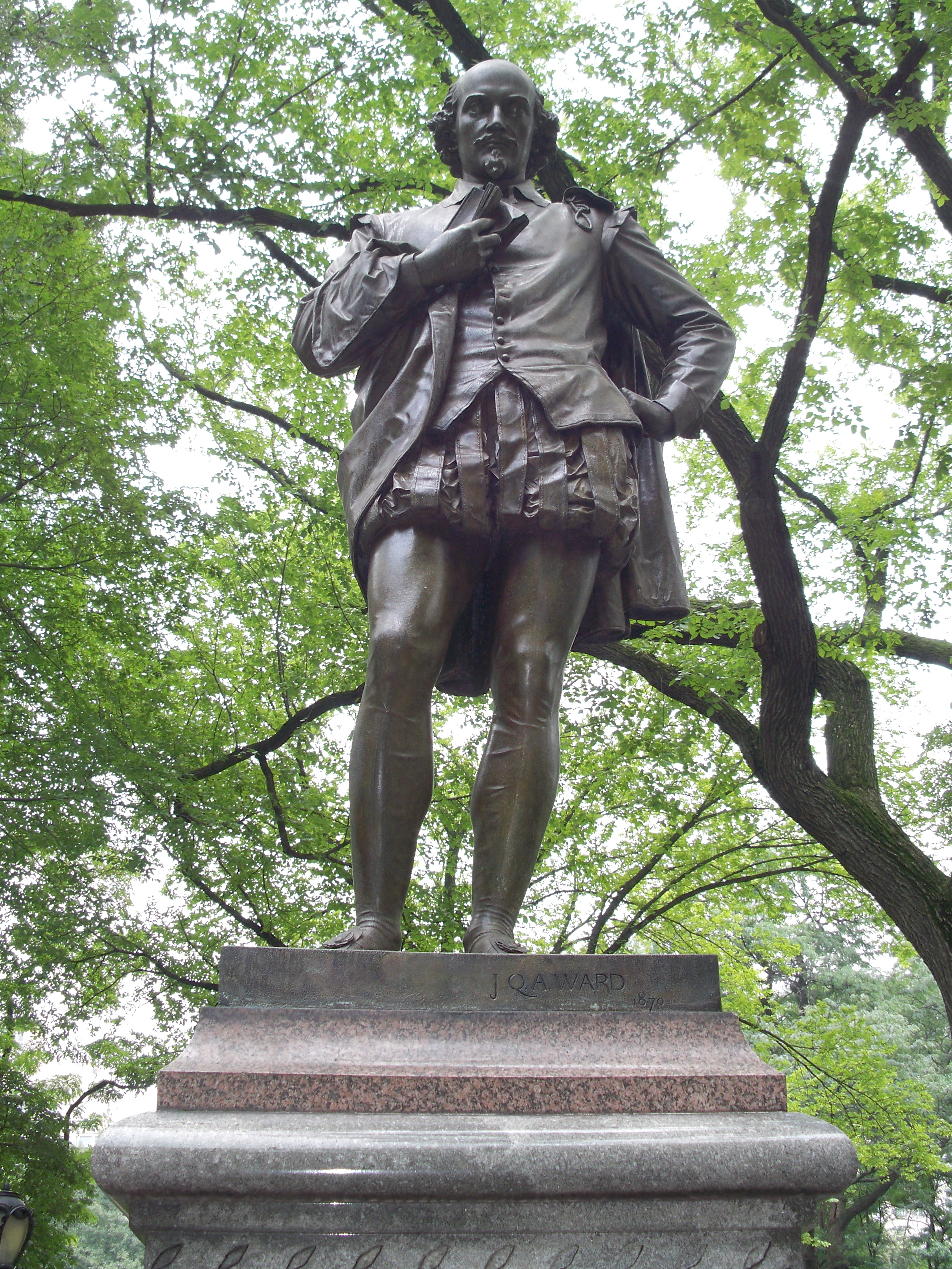 Statue of William Shakespeare on "Literary Walk" in Central Park, Manhattan, NYC